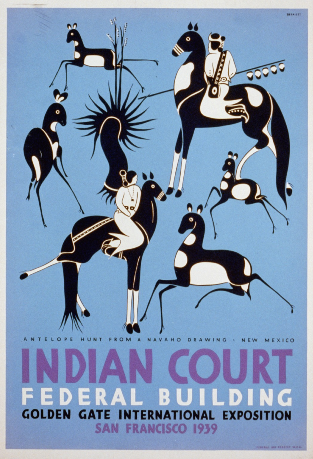 Title: Indian court, Federal Building, Golden Gate International Exposition, San Francisco, 1939 Abstract: Poster for the Indian Court exhibit at the Golden Gate International Exposition in San Francisco, showing antelope hunt from a Navajo drawing. Physical description: 1 print (poster) : silkscreen, color. Notes: Work Projects Administration Poster Collection (Library of Congress).; Siegriest.; Exhibited: American Treasures of the Library of Congress, 2002.